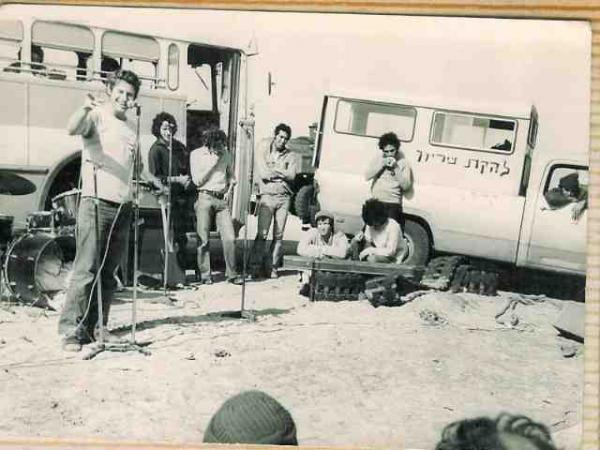 The Israeli Loul group (Uri Zohar at the microphone) performing before soldiers in during the 1973 war.